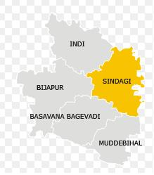 Sindagi